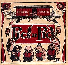 Original cover for the first printed edition of "Pigs is Pigs" by Ellis Parker Butler.